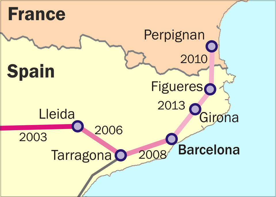 Map of High Speed railway lines to be built between Barcelona and Perpignan. Cutout from Image:AVE.png, based on an idea by User:Edgepedia.